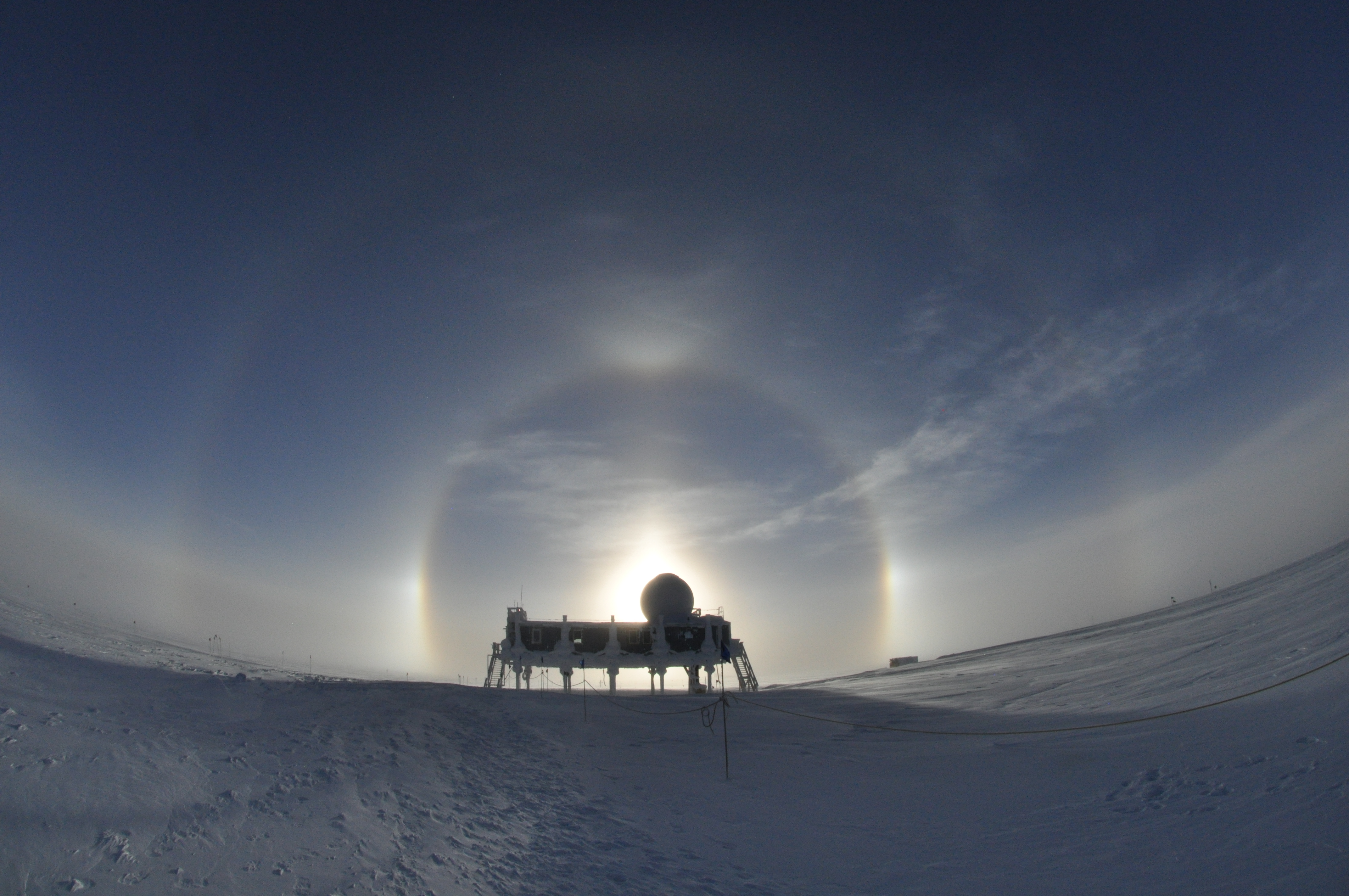 Sun dogs with 46 degree faint halo and a 22 degree halo with an upper tangent arc. Photographer: Lieutenant Commander Heather Moe, NOAA Corps Image ID: arct1104, NOAA at the Ends of the Earth Location: Greenland Summit Station, the Greenland Environmental Observatory.